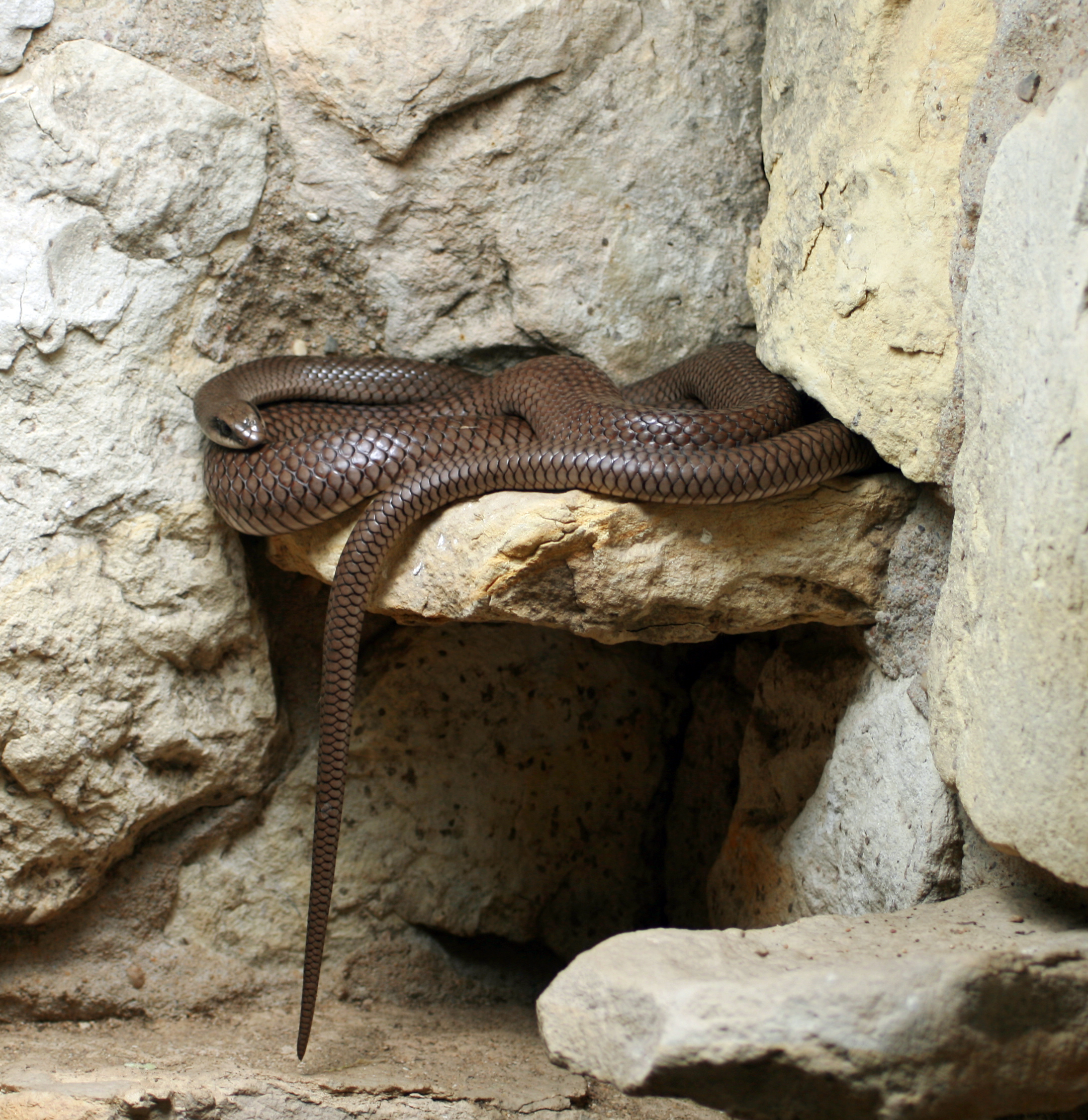 Rufous Beaked Snake, (Rhamphiophis rostratus) in ZOO Praha, Czech Republic